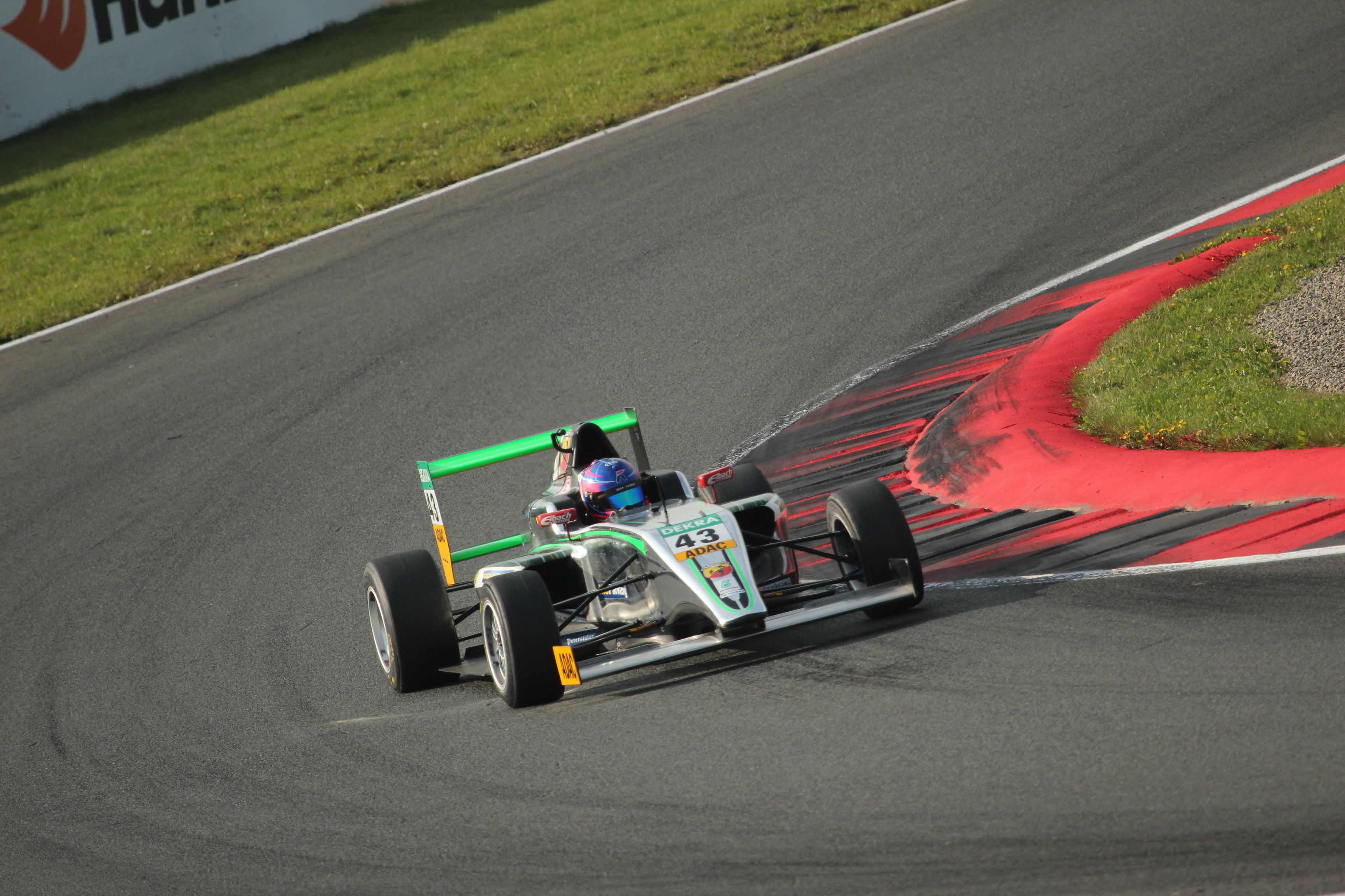 Benjamin Bailly at Oschersleben in 2015, German Formula 4 Championship